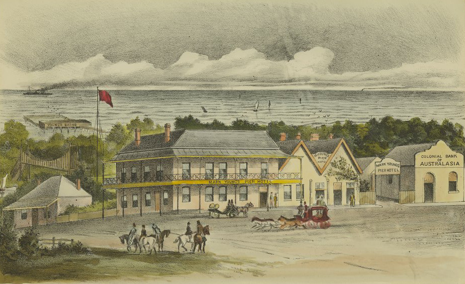 Lithograph of Mark Young's Pier Hotel, Young's Baths (background) and Colonial Bank of Australasia (right) in Frankston in 1888 by Clarence Woodhouse.